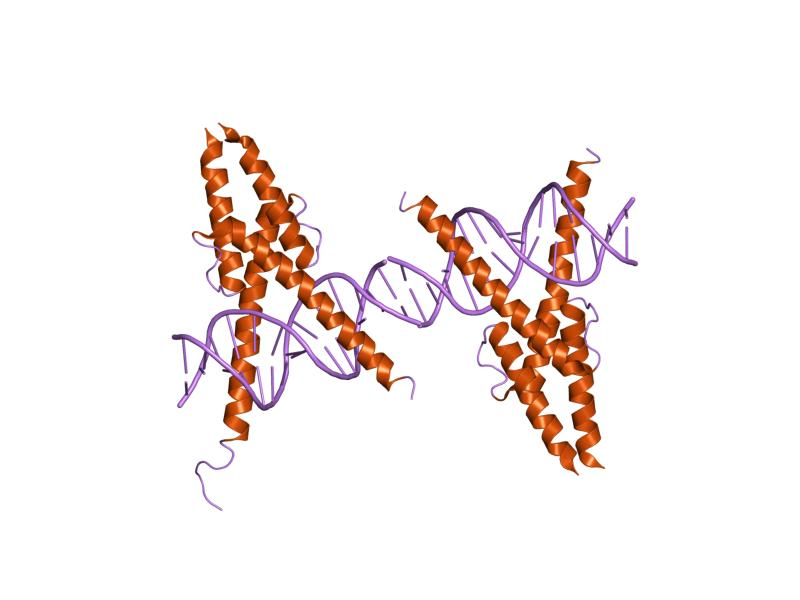 Cartoon representation of the molecular structure of protein registered with 1mdy code.